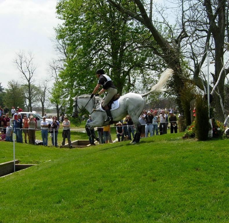 2007 Rolex Three Day "Coffin" (rails, ditch, rails) obstacle